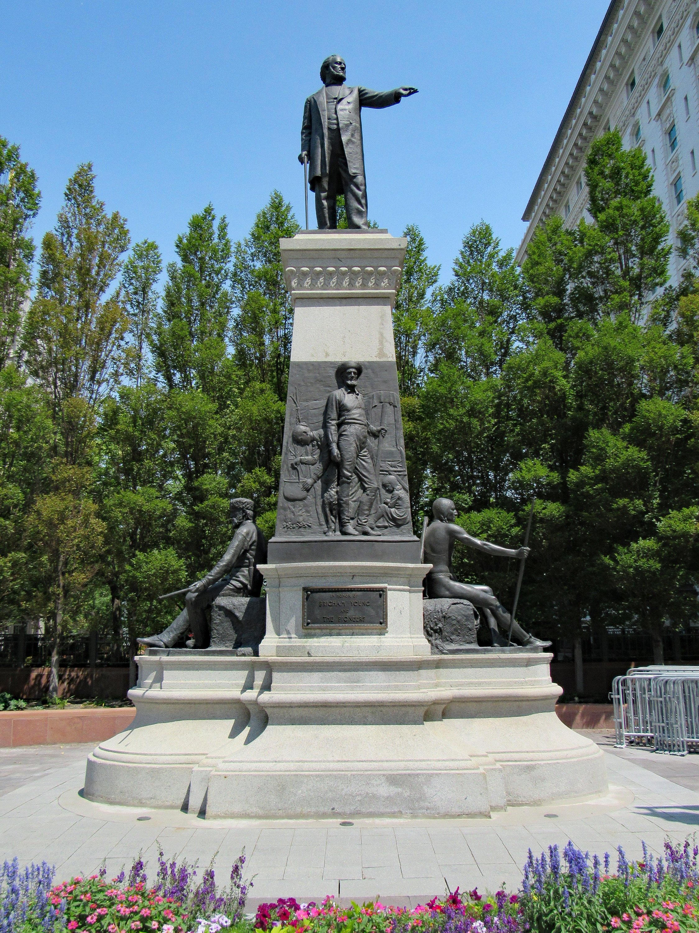 A view of the Monument to Brigham Young and the Pioneers in downtown Salt Lake City, Utah.